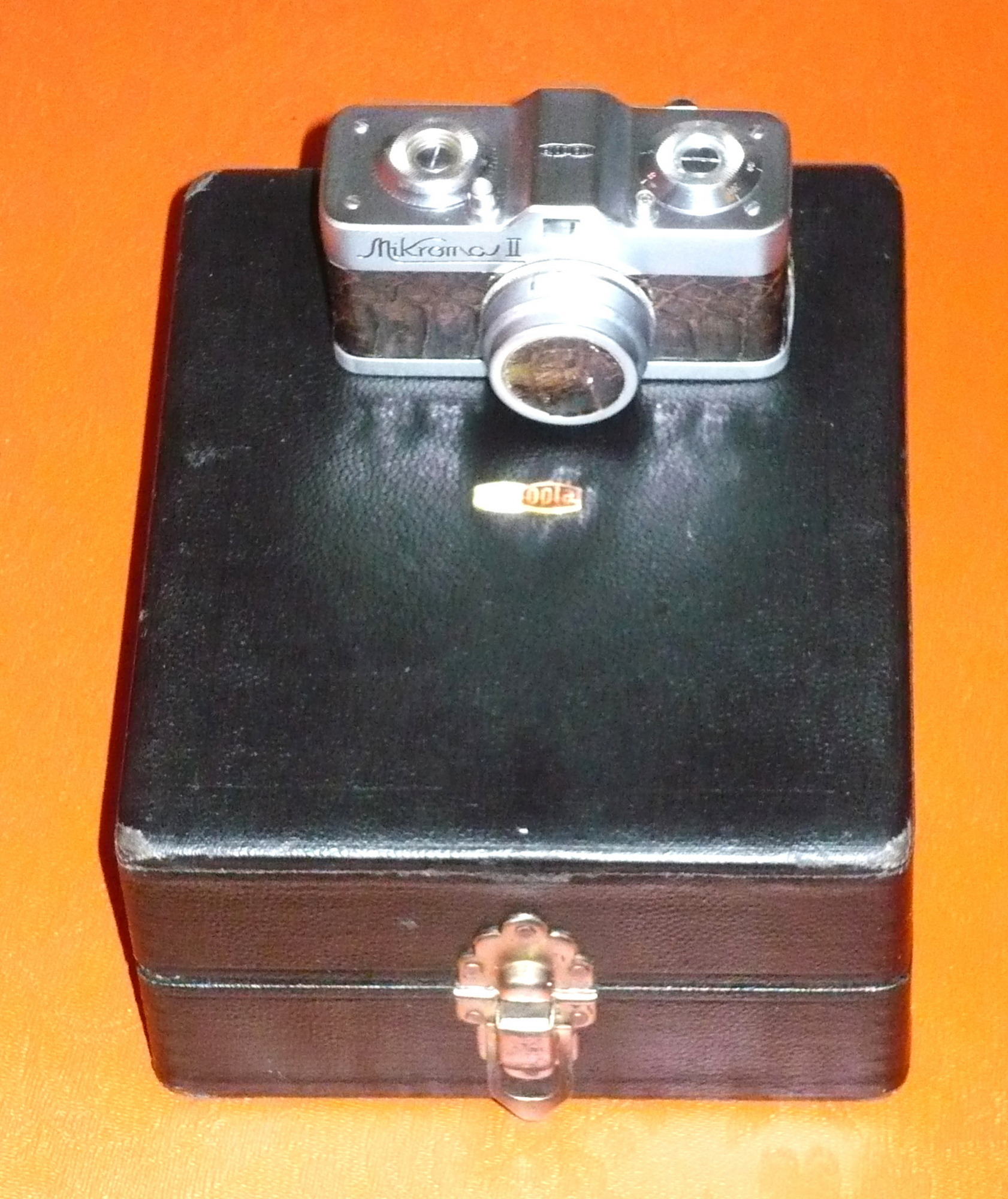 Dark brown snake skin Mikroma II with Meopta presentation wood box